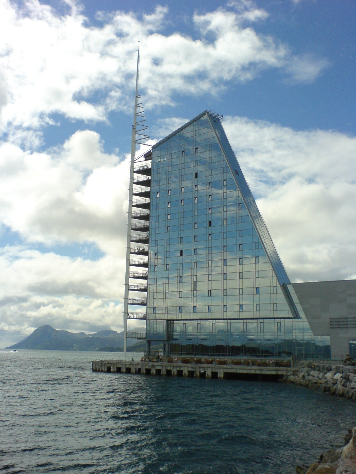 The Hotel Rica Seilet Hotell in Molde